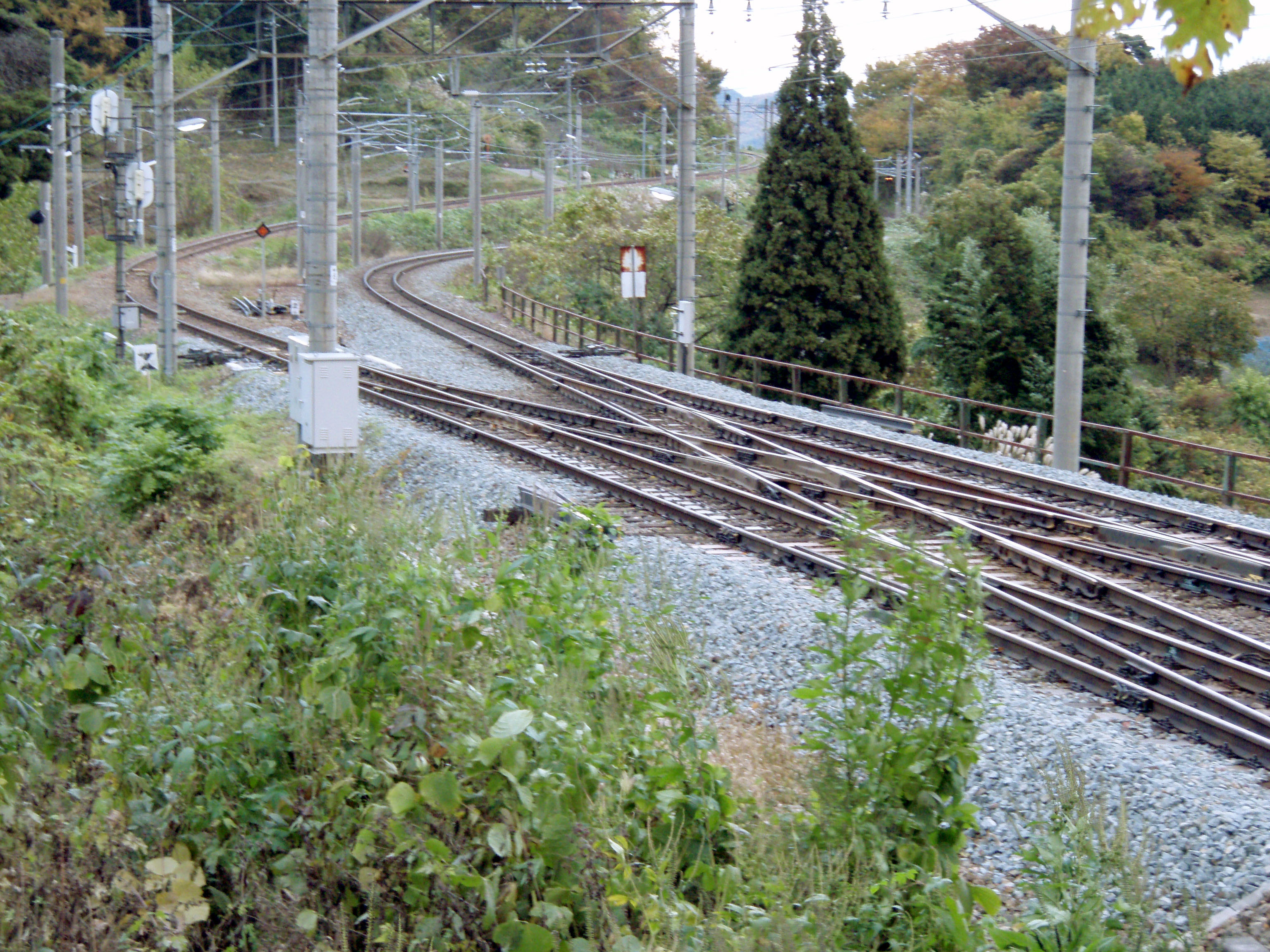 Shinonoi Main Line Haneo Signal Base, view towards Obasute